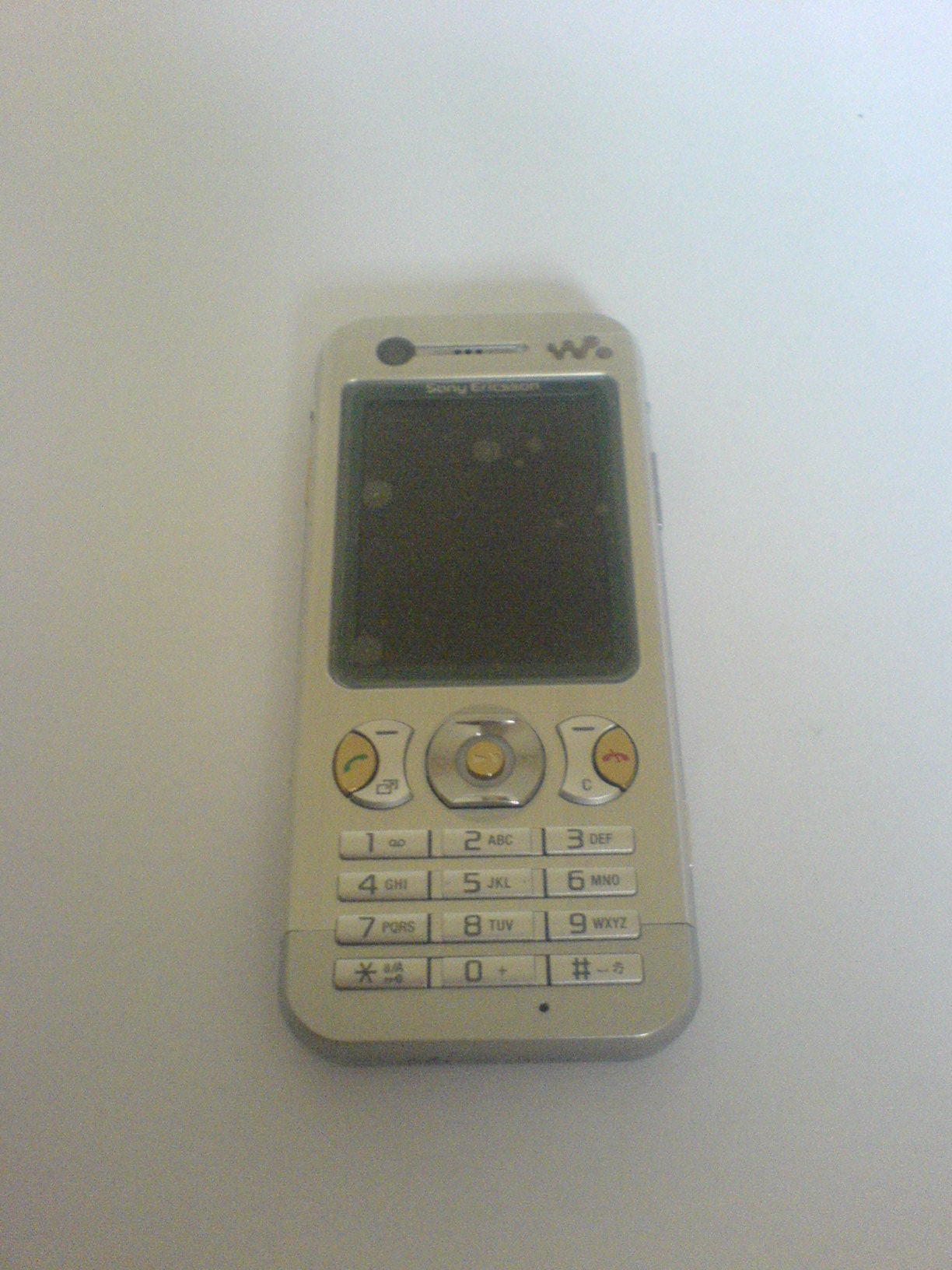 Sony Ericsson W890i